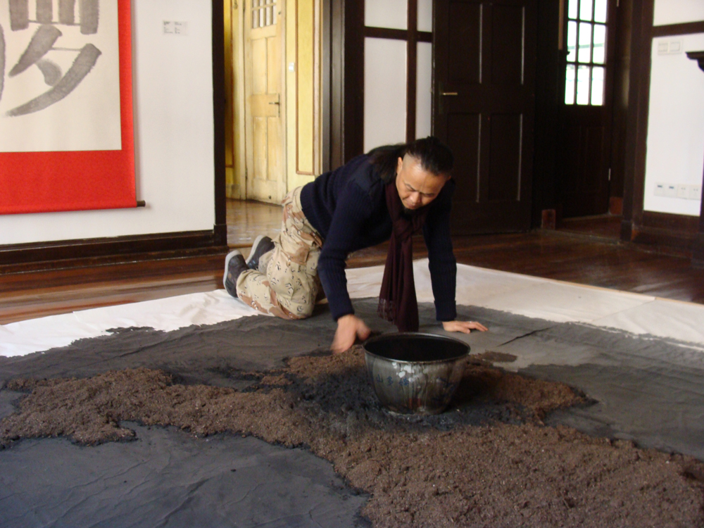 Dai Guangyu dismantling his installation "borderline" at the end of the exhibition "ink games" at ifa gallery, late 2008.